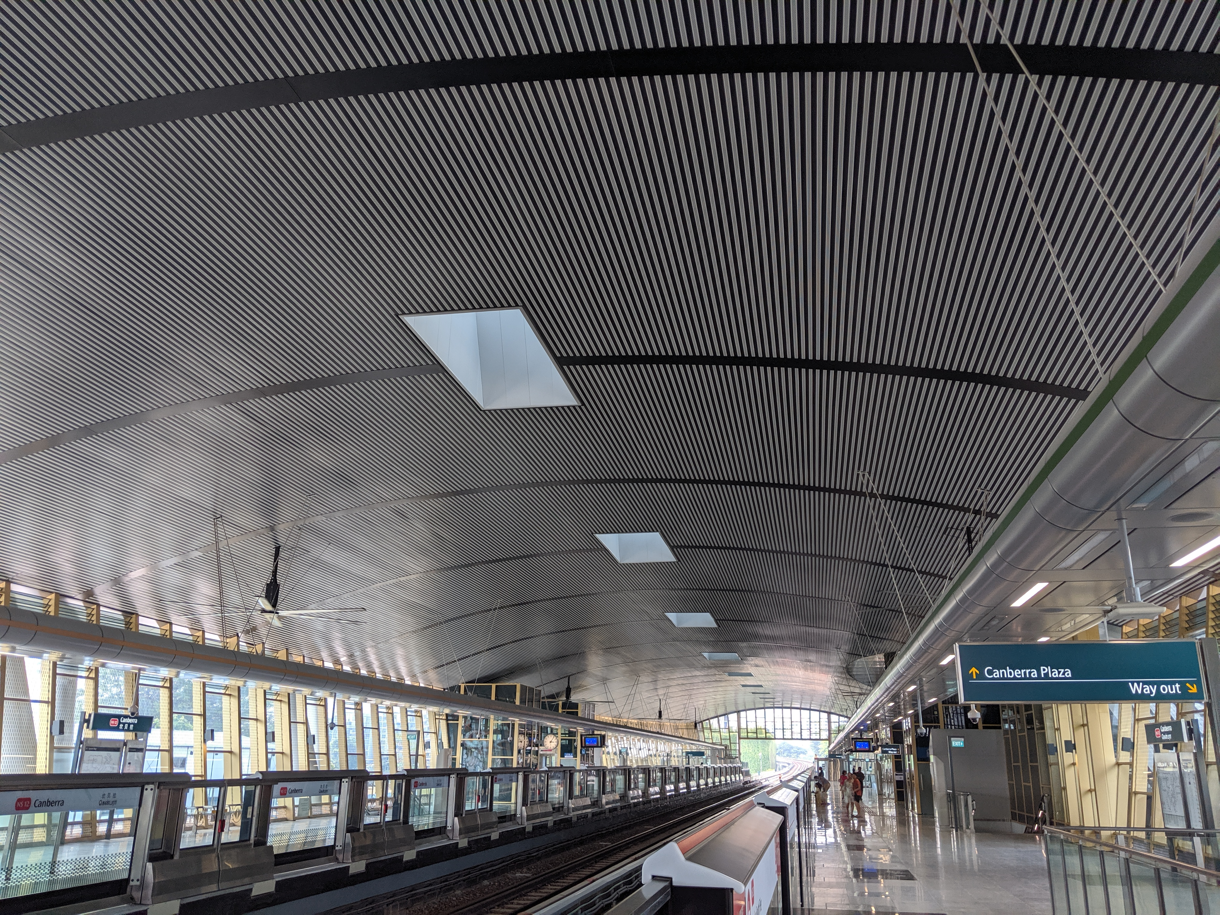 This is the Canberra MRT station, which opened on 2 November 2019.